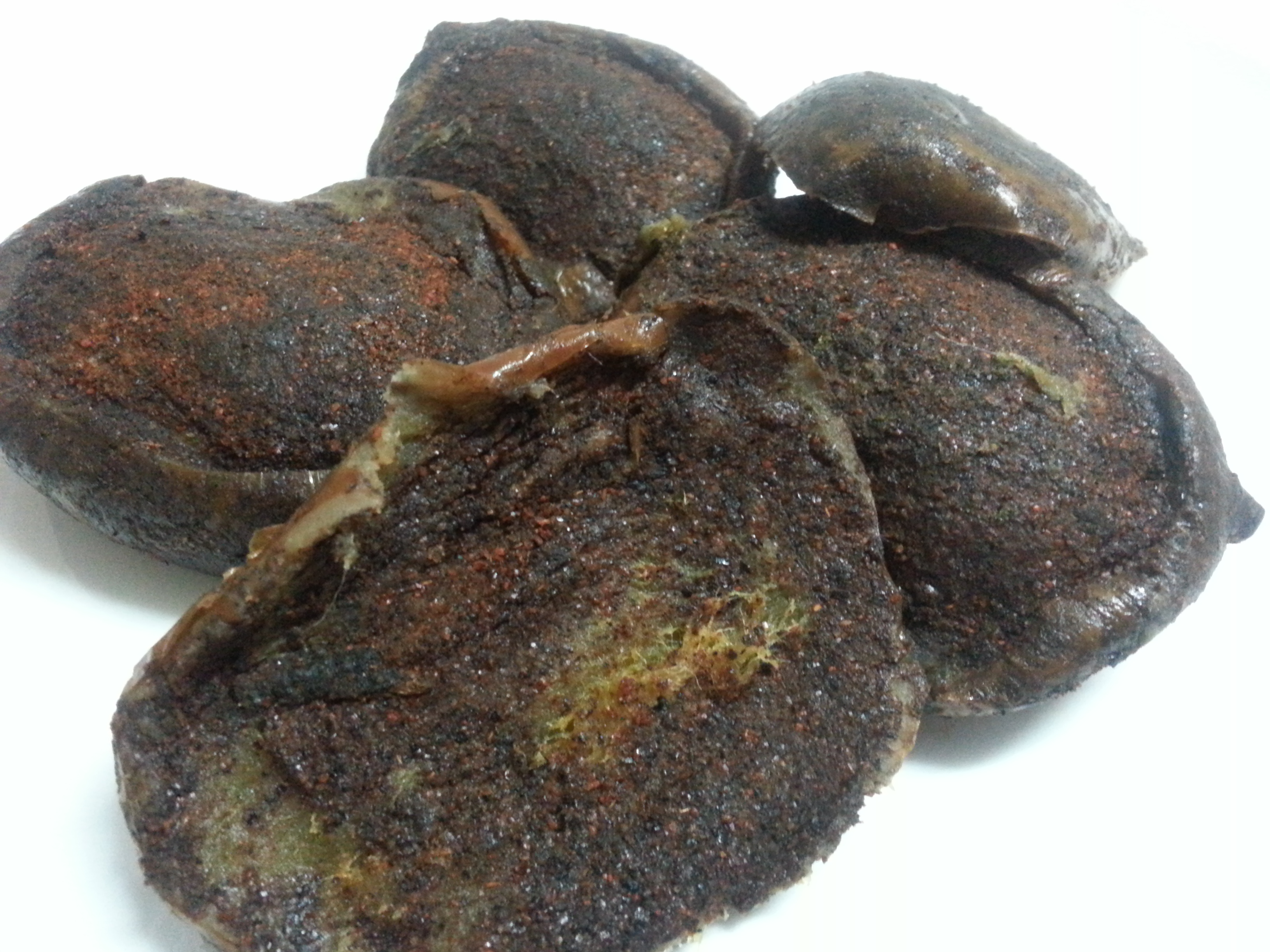 Dry mango